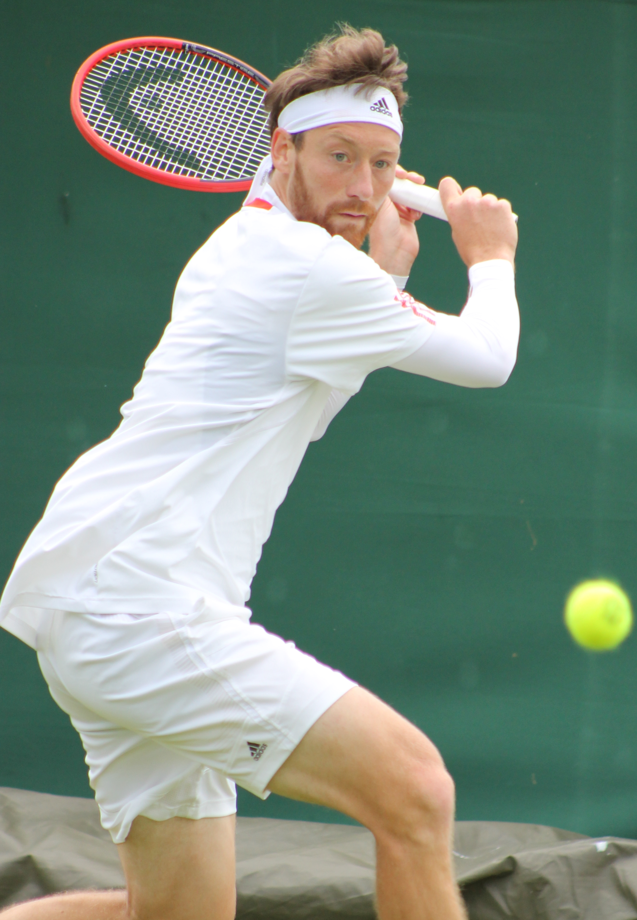 Mecir WMQ14 (6)